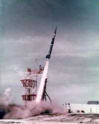 Launch of ALPHA DRACO 3 vehicle from Pad 10, Cape Canaveral Air Force Station.